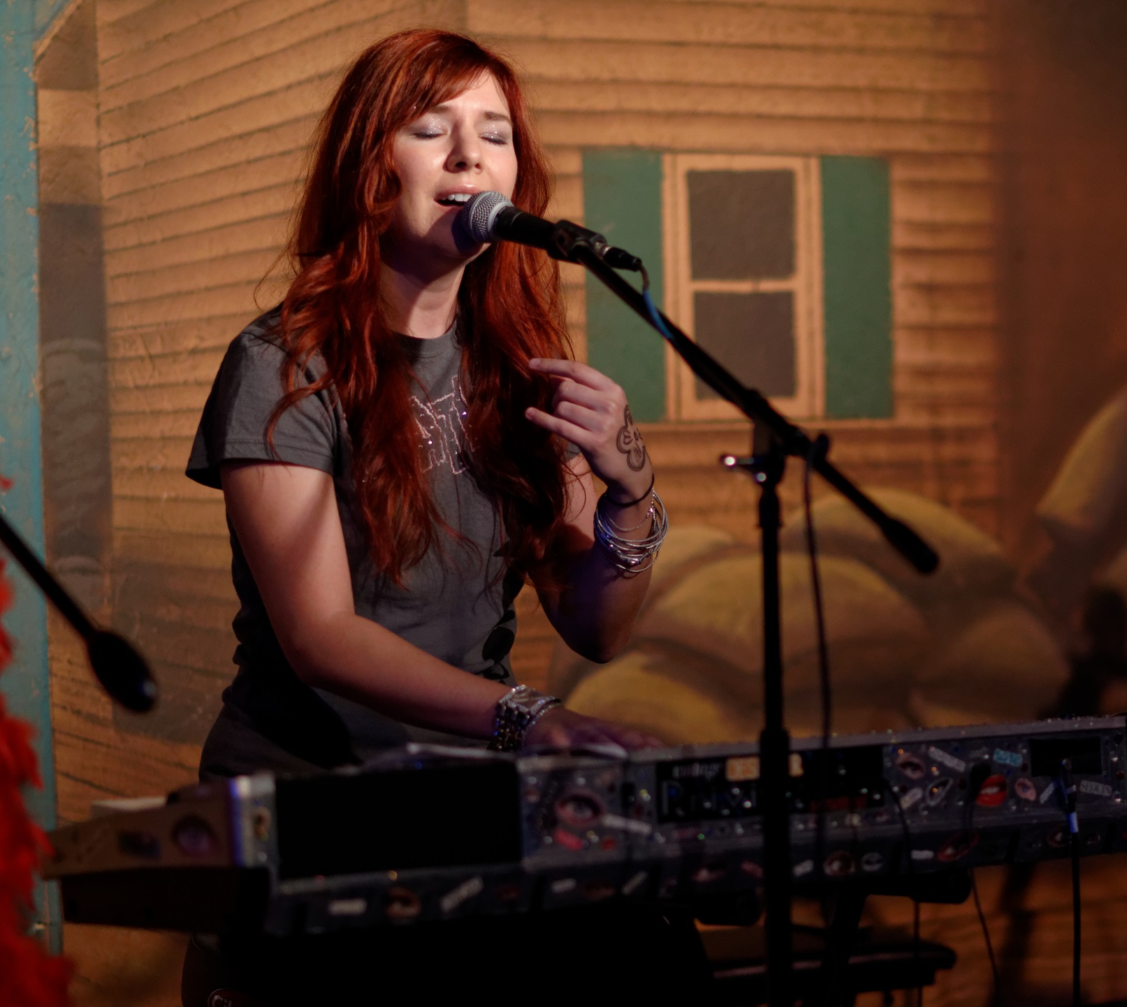 Marina V performing live at Coffee Gallery Backstage in Altadena California in 2014